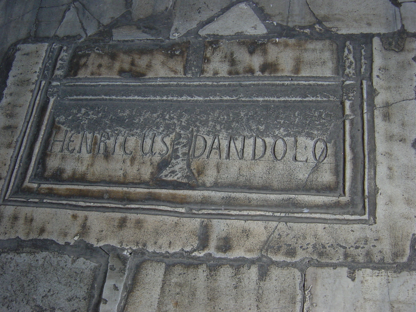 Tomb of Enrico Dàndolo (Henricus Dandolus), Doge of Venice, in Hagia Sophia in Istanbul. Picture by: Giovanni Dall'Orto, May 24 2006.